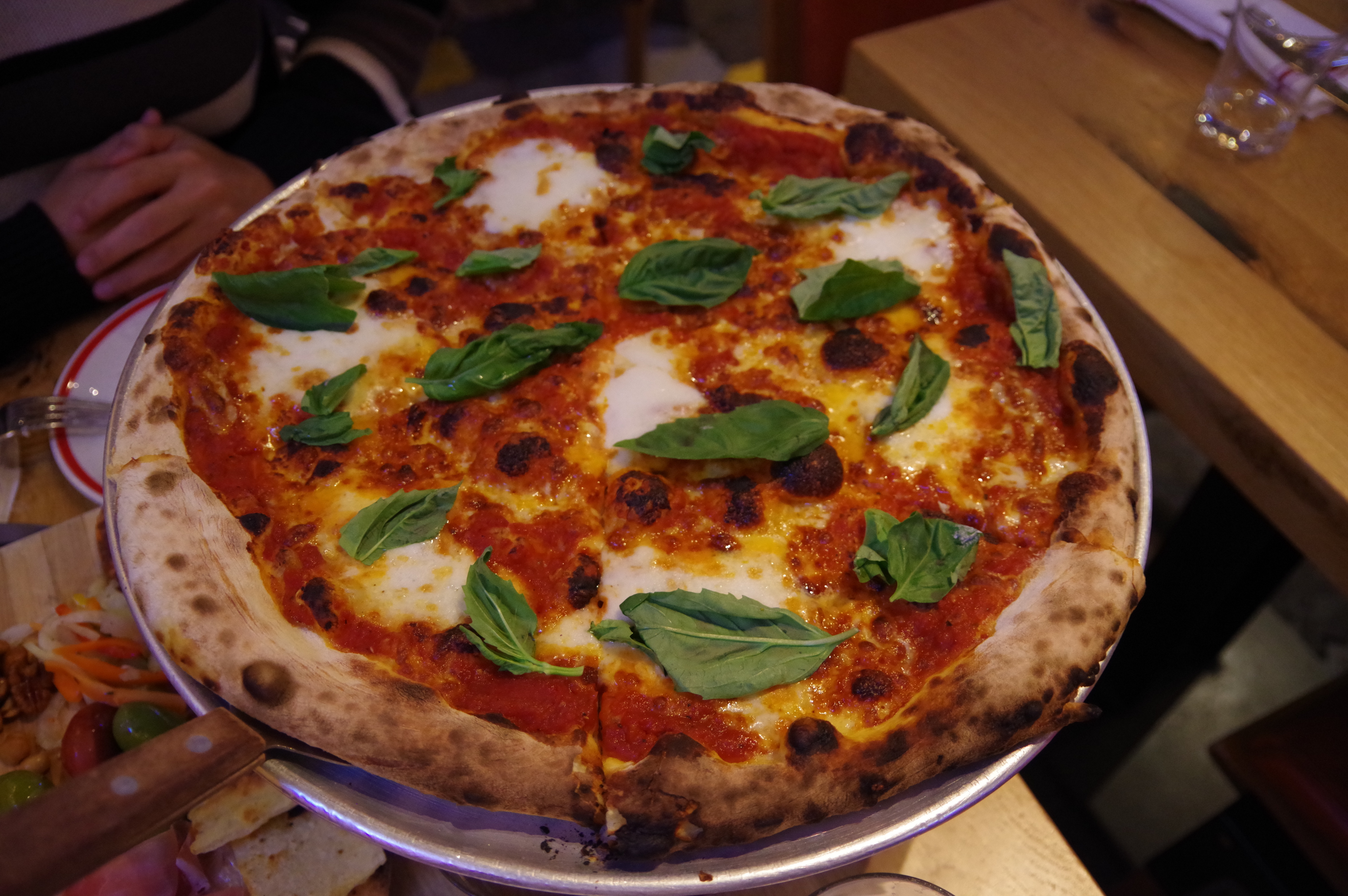 Margherita pizza at Five50 Pizza Bar at the Aria Resort and Casino in Las Vegas, Nevada